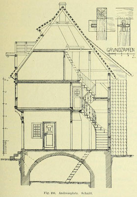 Розріз зі сторони площі Андерсплац